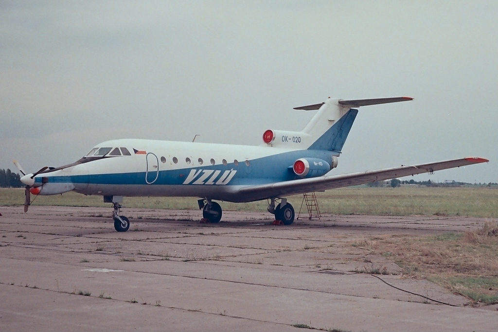 M-601 engine (Let L-610) testbed. Ex CSA Czechoslovak Airlines OK-EEA. and was operated by VZLU.